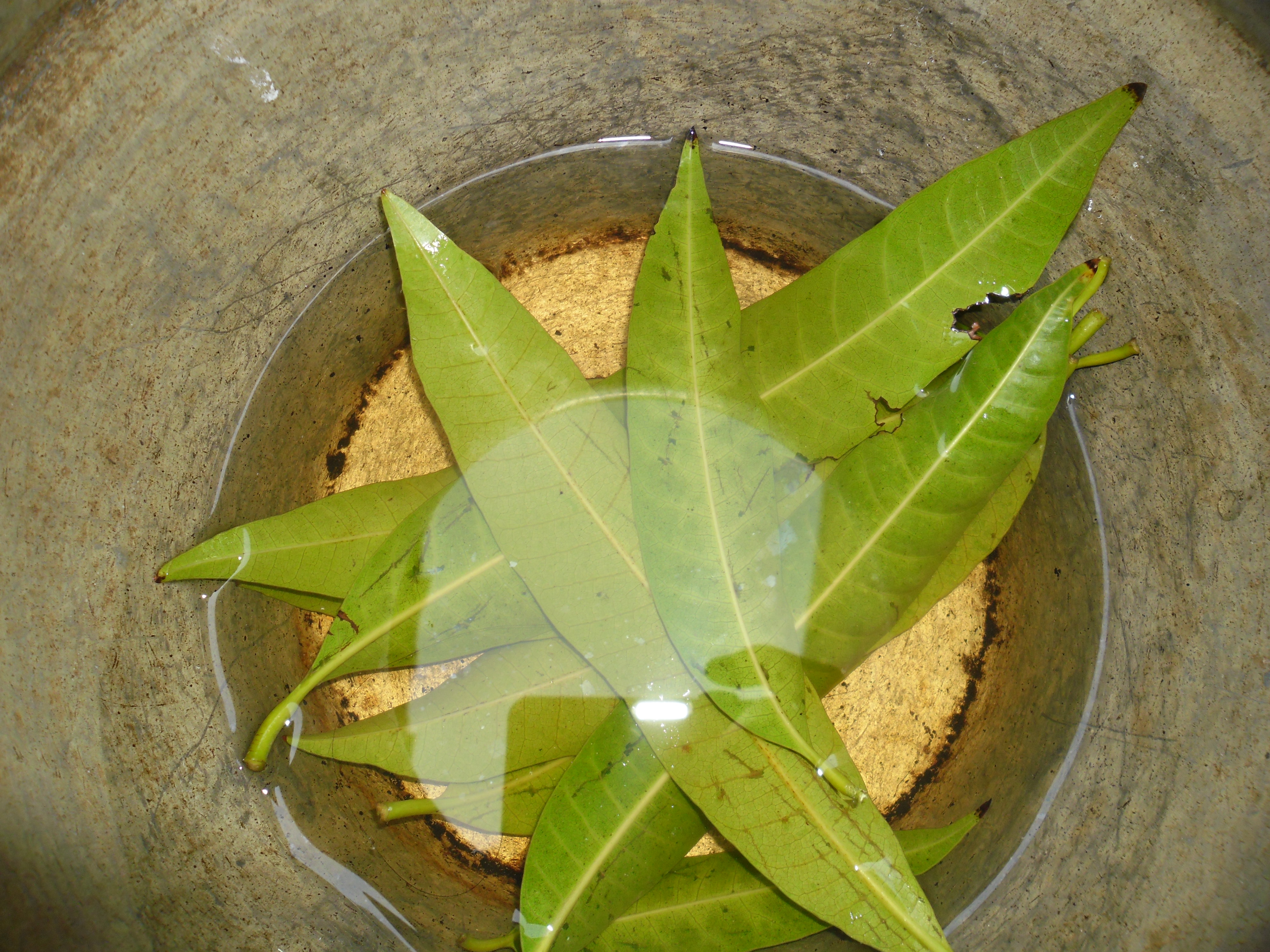 Cow Urine (Gomutra)